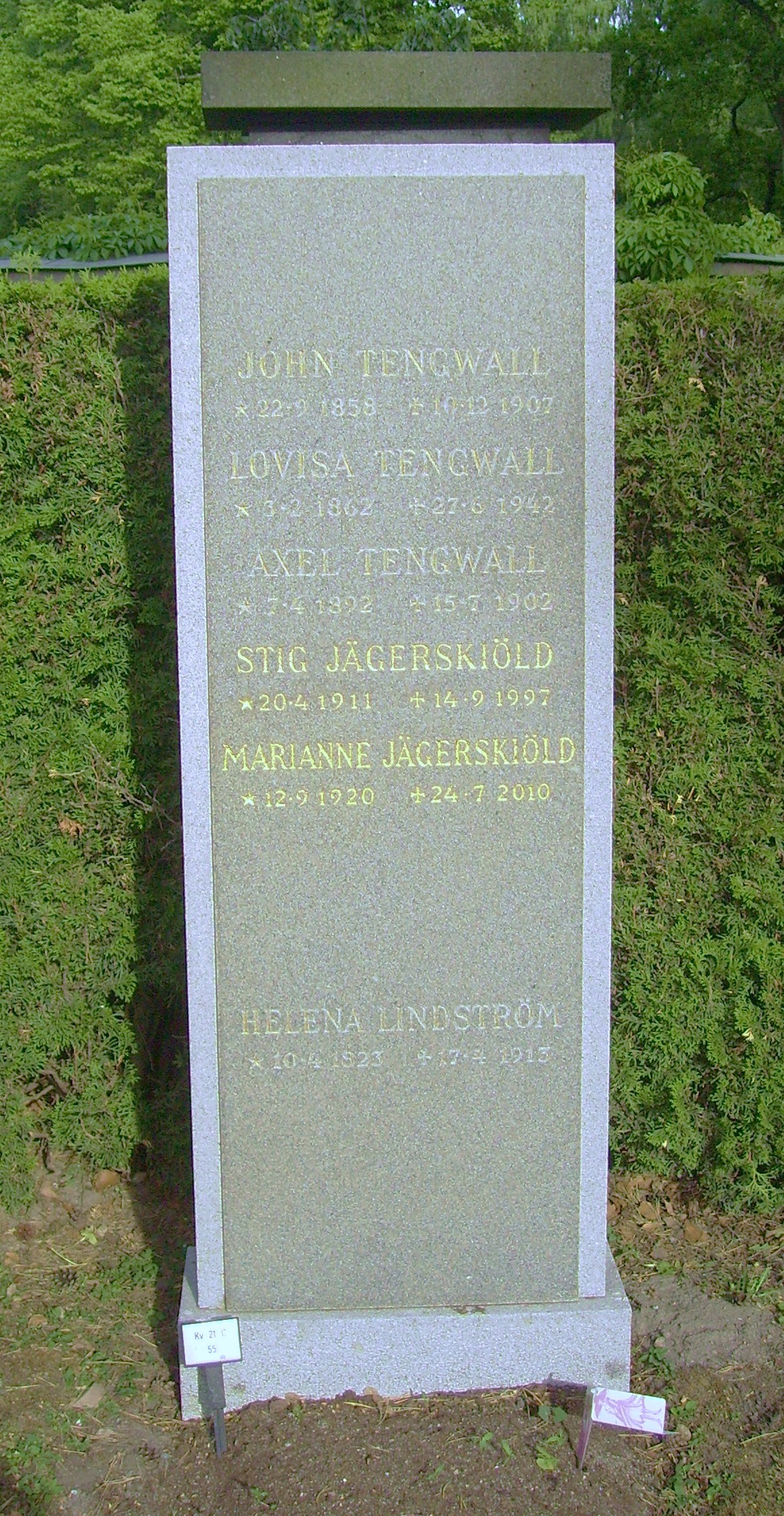 Picture of Stig Jägerskiöld's grave at Norra begravningsplatsen in Solna